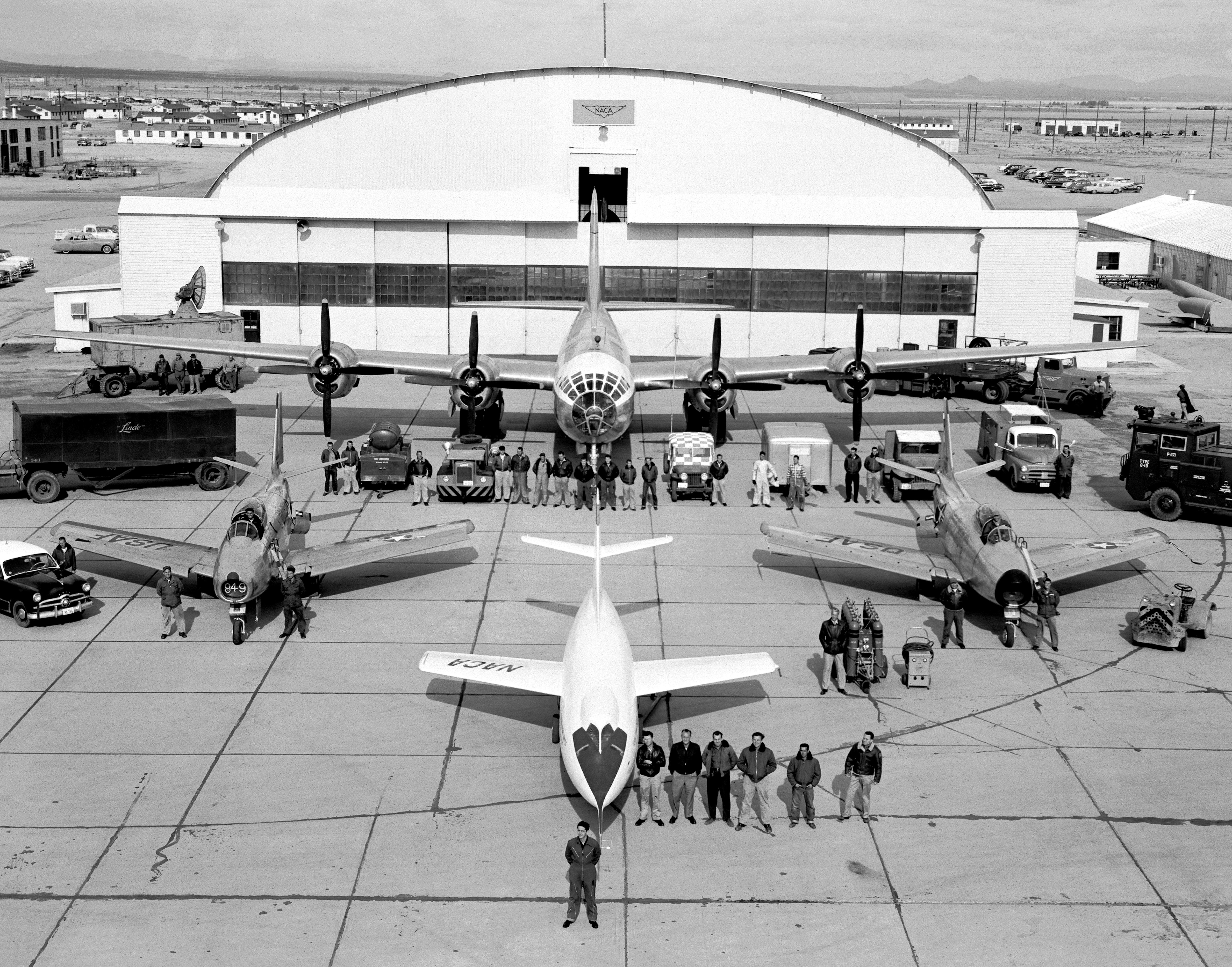 The fleet of NACA test aircraft are assembled in front of the hangar at the High Speed Flight Station, (later renamed the Dryden Flight Research Center) in Edwards, California. The white aircraft in the foreground is a Douglas Aircraft D-558-2 Skyrocket. To its left and right are North American F-86 Sabre chase aircraft. Directly behind the D-558-2 is the P2B-1 Superfortress, (the Navy version of the Air Force B-29). Also known as the "mothership," the P2B-1 carried aloft the D-558-2 Skyrocket under its fuselage. Once reaching altitude, the D-558-2 was released from the "mothership" after which the pilot ignited its onboard rocket engine. Research pilot A. Scott Crossfield stands in front of the Skyrocket.